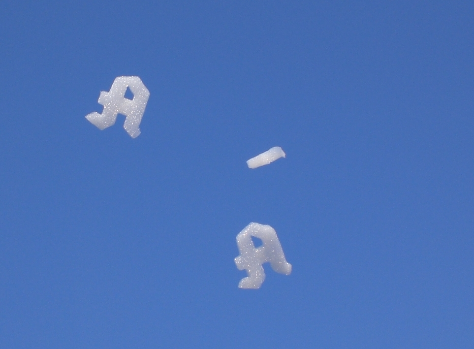 Flogos, flying foam motif